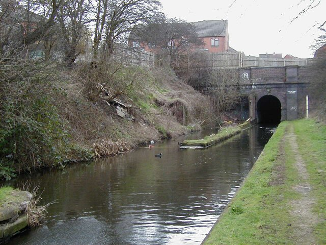 Gosty Hill Tunnel. The unusually high northern portal. The 'layby' at the left was used to accommodate the tunnel tug.